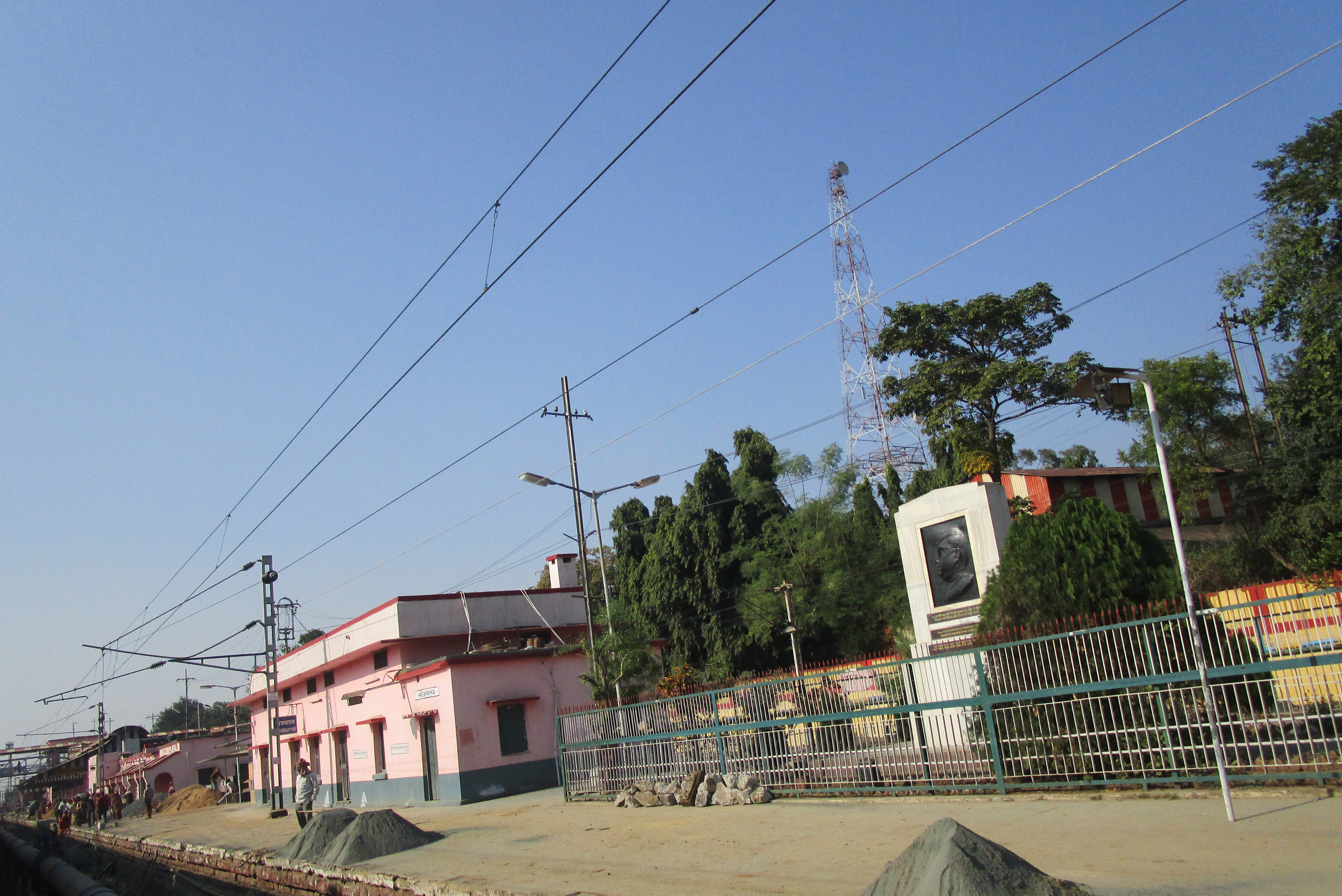 Netaji Subhas Chandra Bose Gomoh railway station